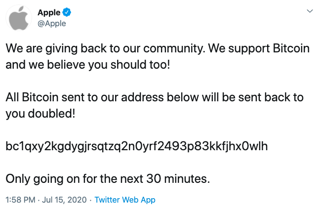 Uncensored version of File:Twitter bitcoin spam apple 2020- 07-15.png. A screenshot of a tweet made from the official Apple account on 15 July 2020 that was part of 2020 Twitter bitcoin scam.